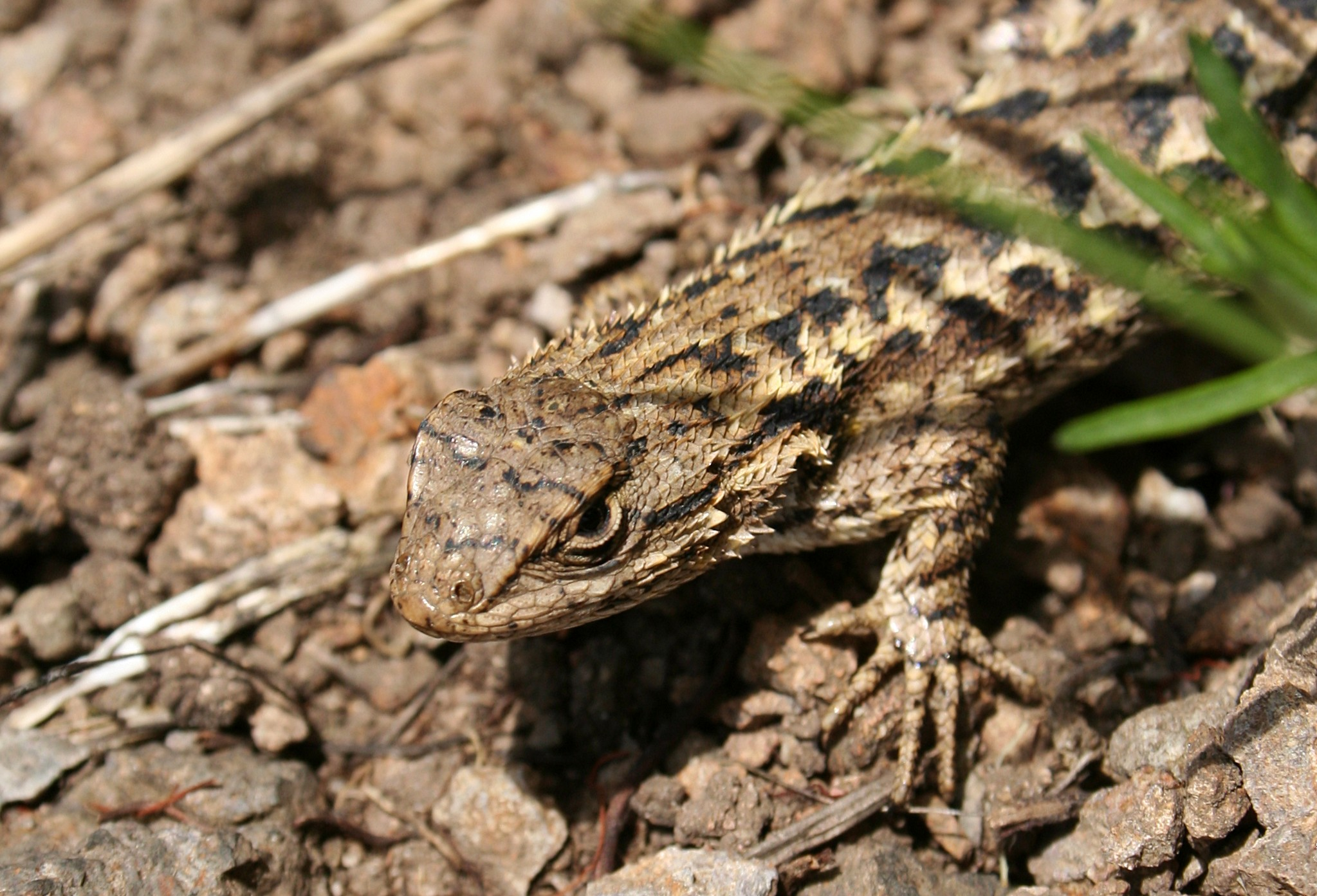 Western Fence Lizard (Sceloporus occidentalis) taken in Tilden Park near Berkeley, California.